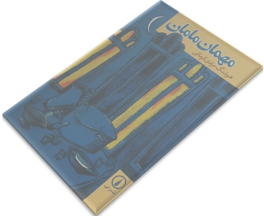 Mihman-e-Maman